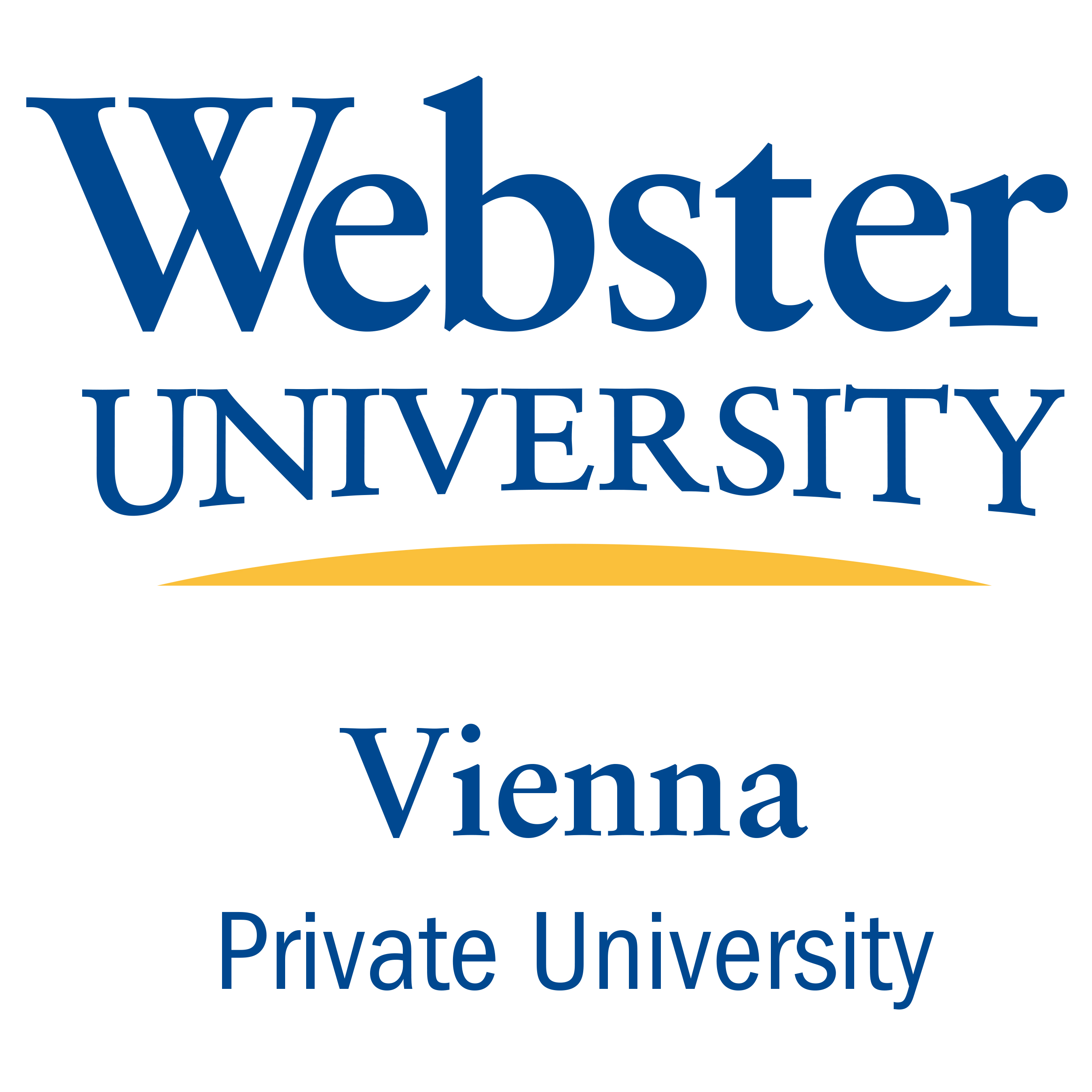 Webster Vienna Private University Logo